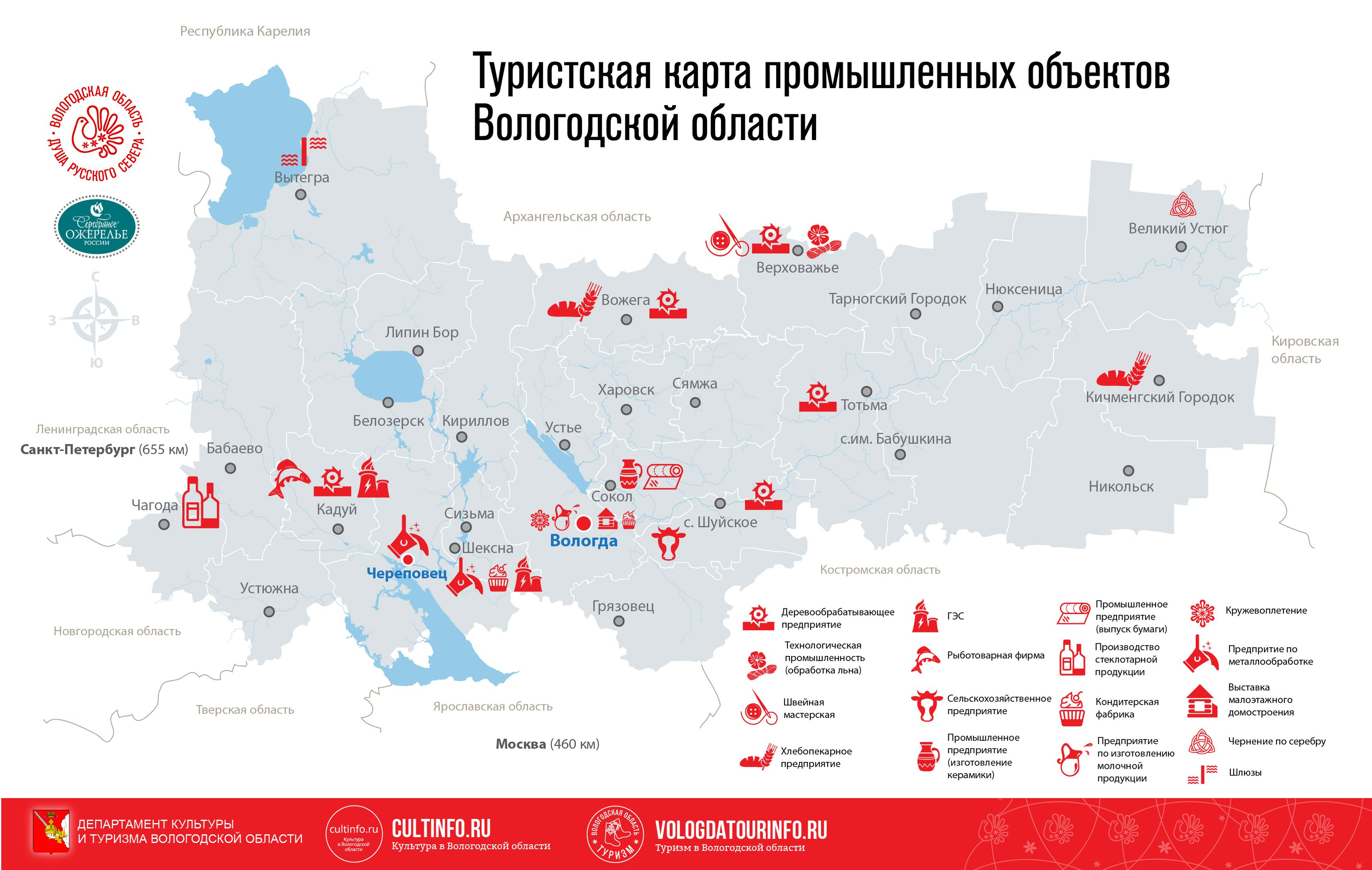 Urban Exploration Map of Vologda Oblast by Federal Agency for Tourism